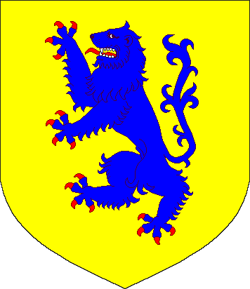 Coat of arms of the noble family "Rabenswalde"